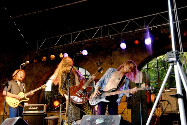 A Finnish rock band Jeavestone performing at the Freakshow Artrock Festival, Würzburg, Germany, 2006.